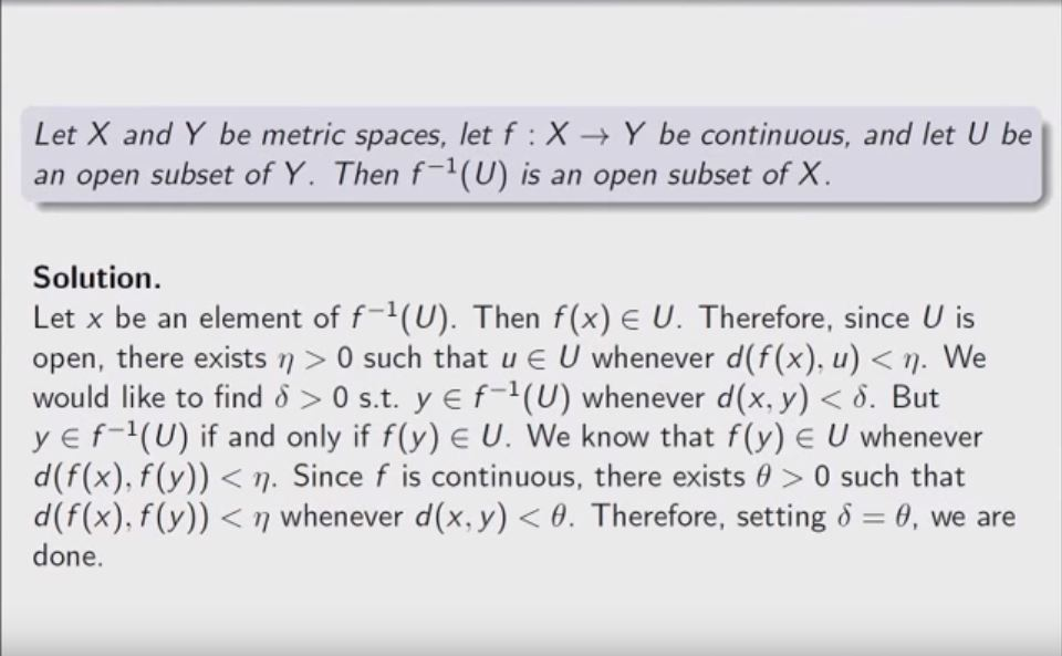 Վերջերս կատարված mini Turing test